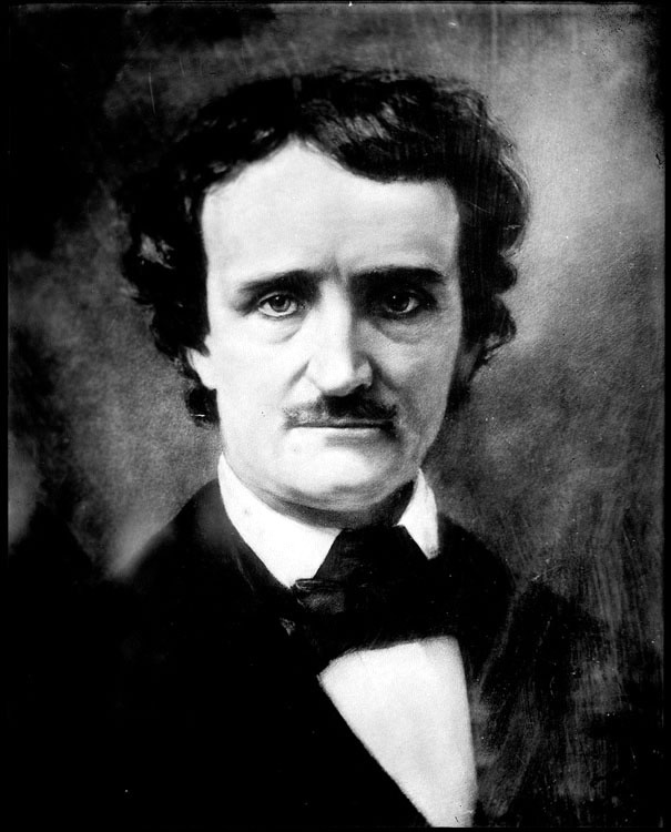 Unidentified portrait of Edgar Allan Poe; portrait was photographed at the University of Virginia in 1913.